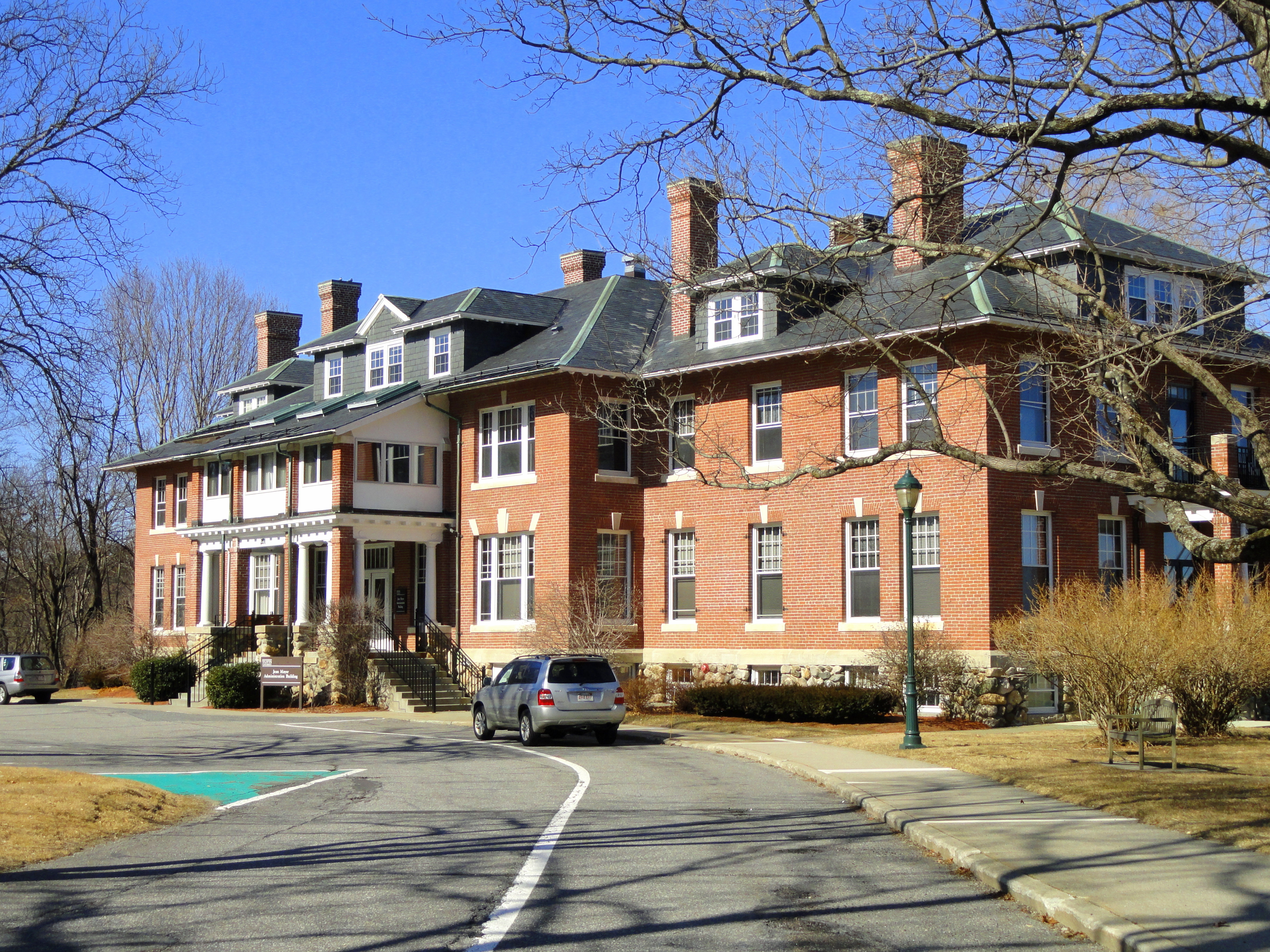 Cummings School of Veterinary Medicine at Tufts University, 200 Westboro Road, North Grafton, Massachusetts, USA.